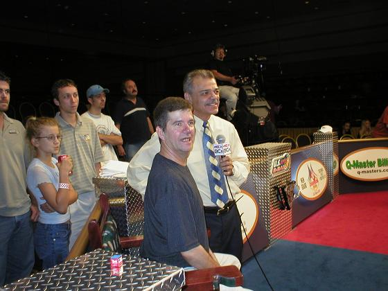 Billy Incardona commentating for Accu-Stats at US Open 9-Ball Championship in Norfolk, Virginia, in 2003